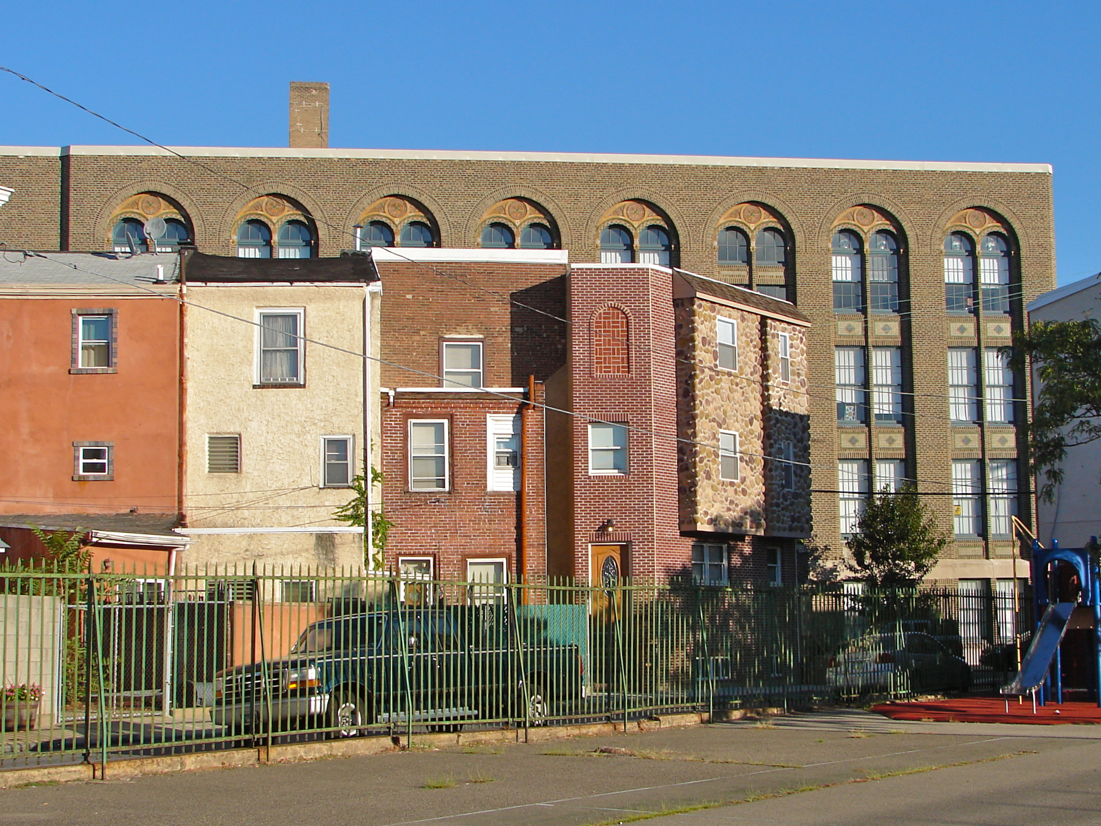 Daniel Boone School in Philadelphia on the NRHP since December 4, 1986. At Hancock and Wildey Streets in the North Philly neighborhood of the Northern Liberties. About a block from I-95 just north of the Ben Franklin Bridge.